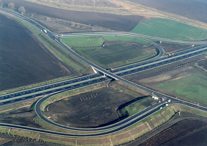 M3 freeway - Hungary - Europe